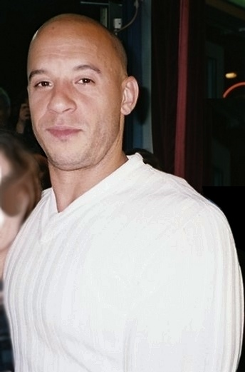 Vin Diesel at the 'Pacifier' premiere in Munich April 2005